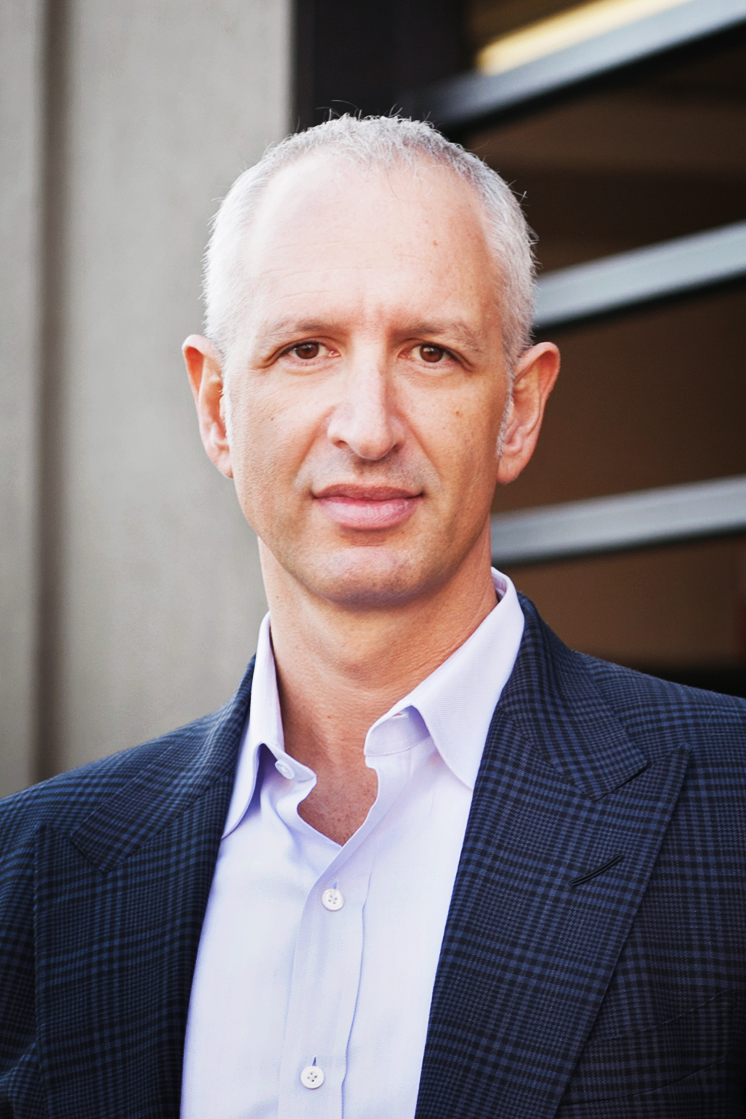 Crushpath CEO and co-founder, Sam Lawrence, March 2013